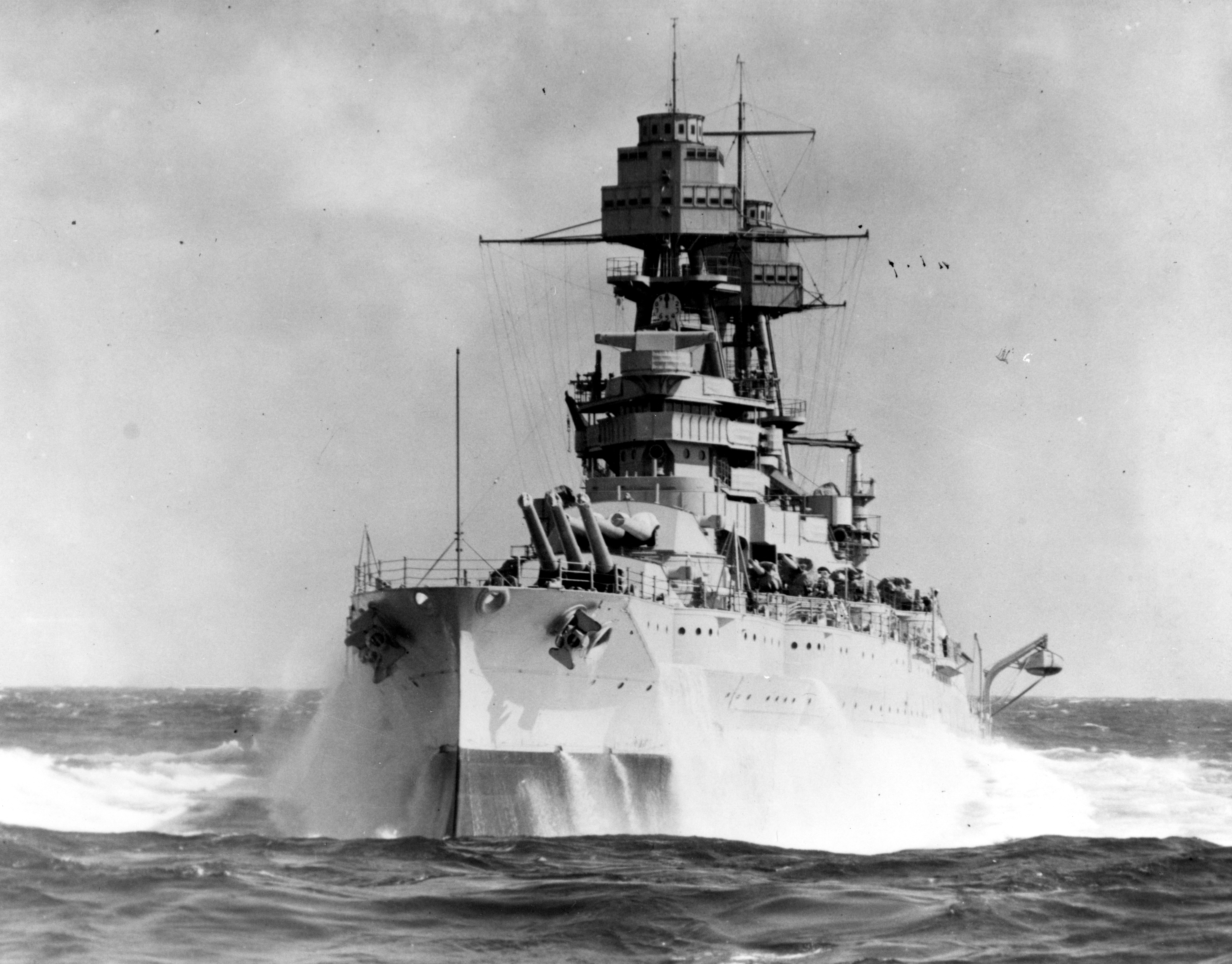 Pitching in heavy seas during the 1930s. Official U.S. Navy Photograph, now in the collections of the National Archives.